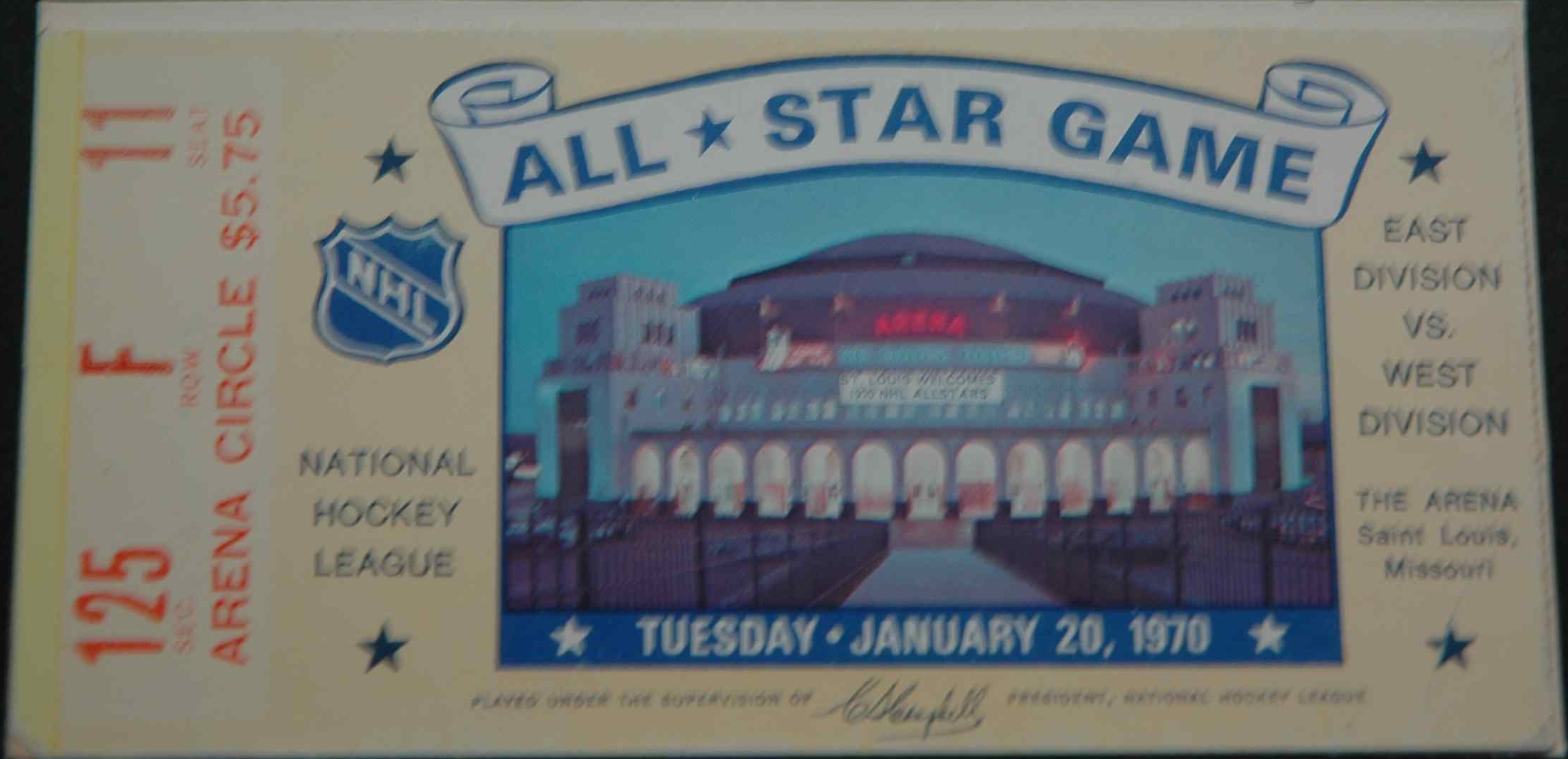 Ticket for the NHL All-Star Game 1970, shown in the Hall of Fame in Toronto